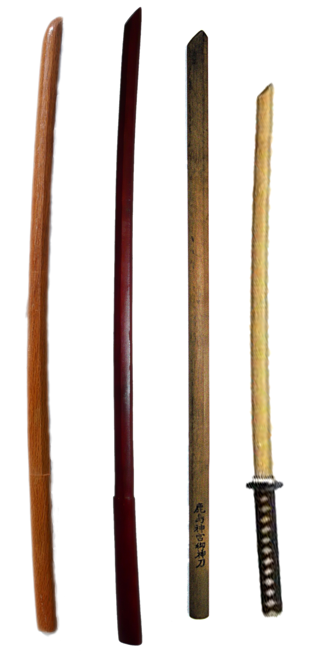 Bokken - japanese wooden weapon for training purpose. Several examples: red oak, ebony, straight bokken, bokken with tsuba and katana-style handle. Relative size not accurate.